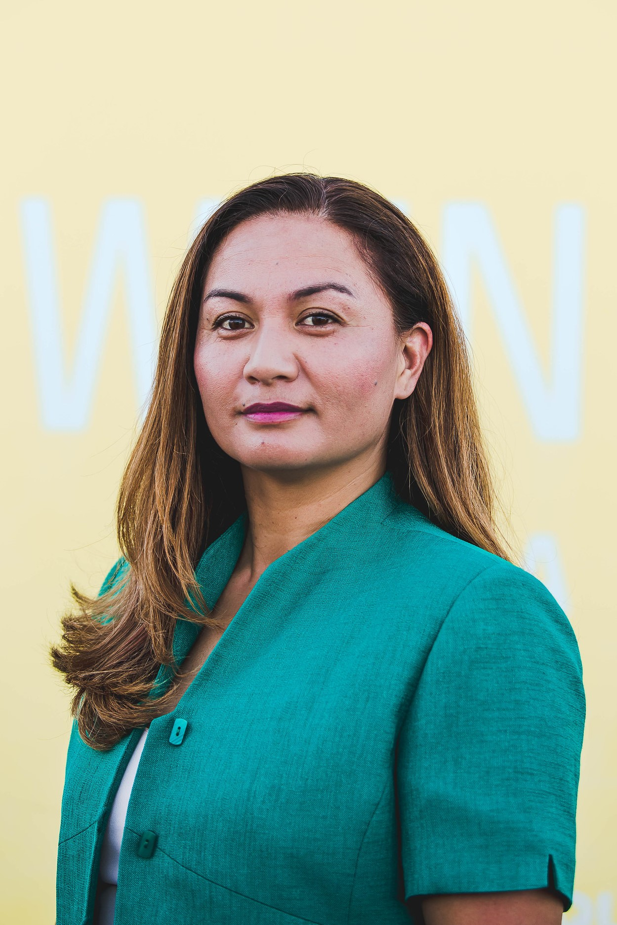 Marama Davidson: Co-leader of the Green Party of Aotearoa New Zealand